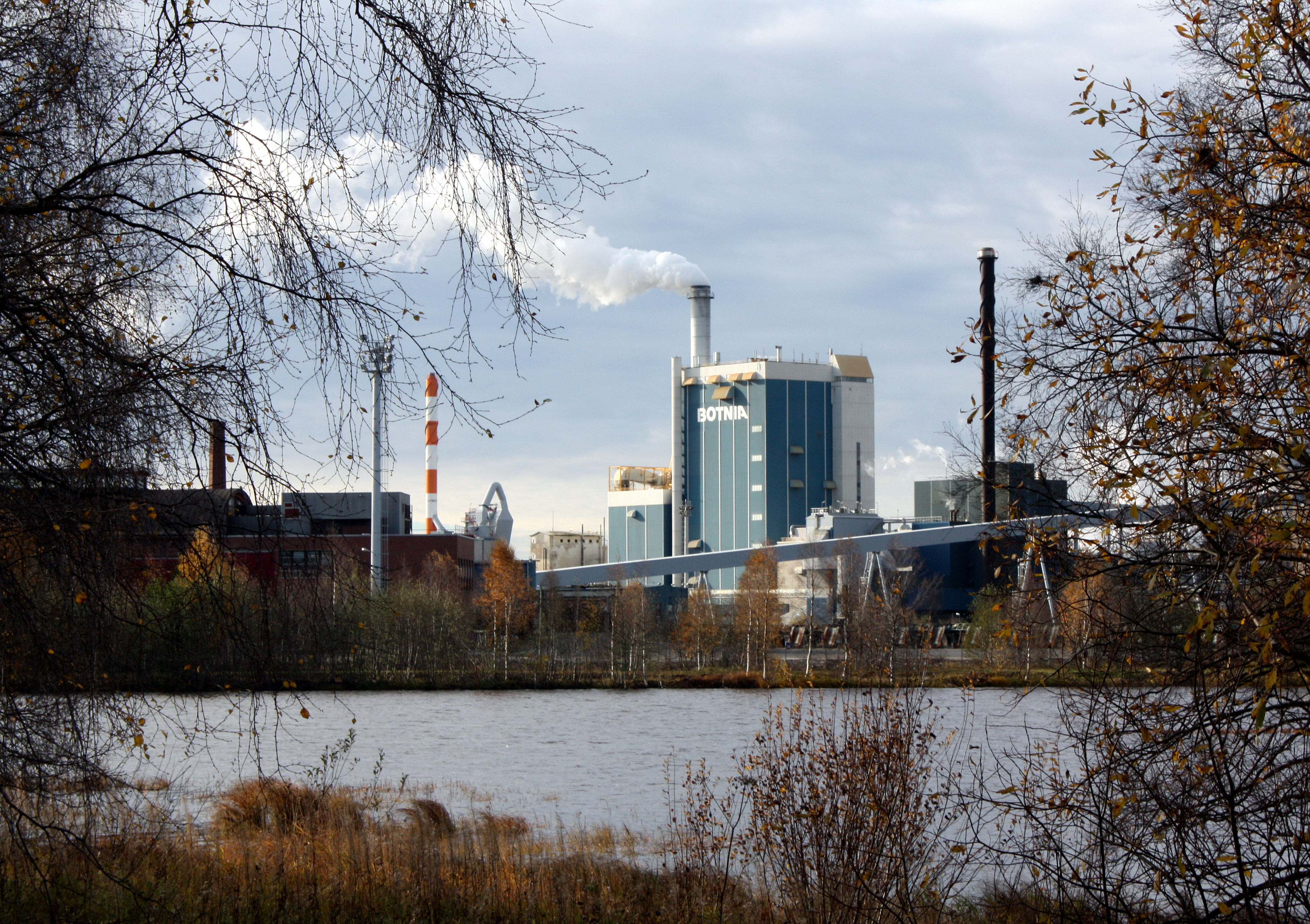 The pulp mill of Metsä-Botnia Oy in Kemi, Finland.